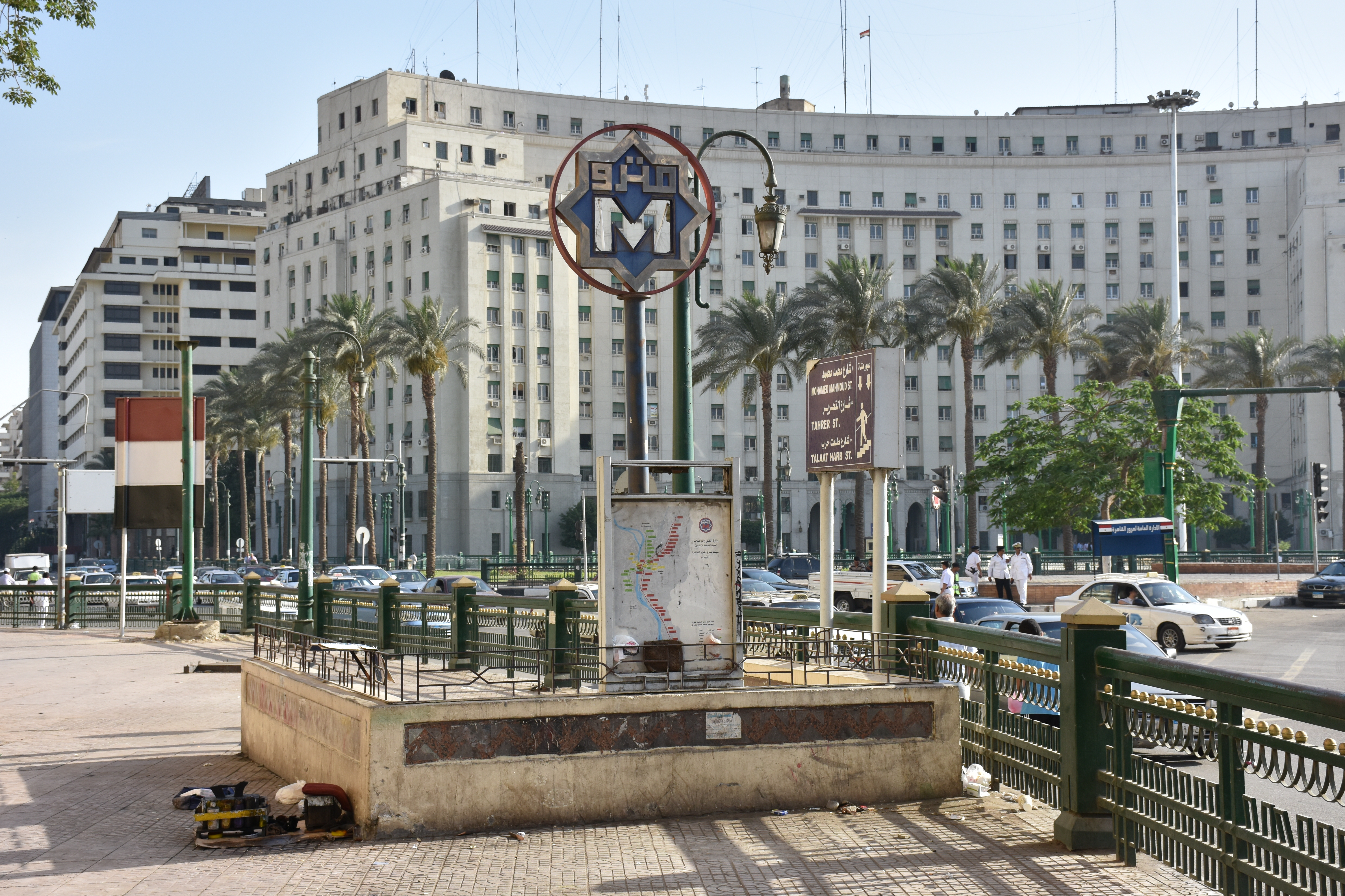 The Sadat Station of Cairo Metro in 2015